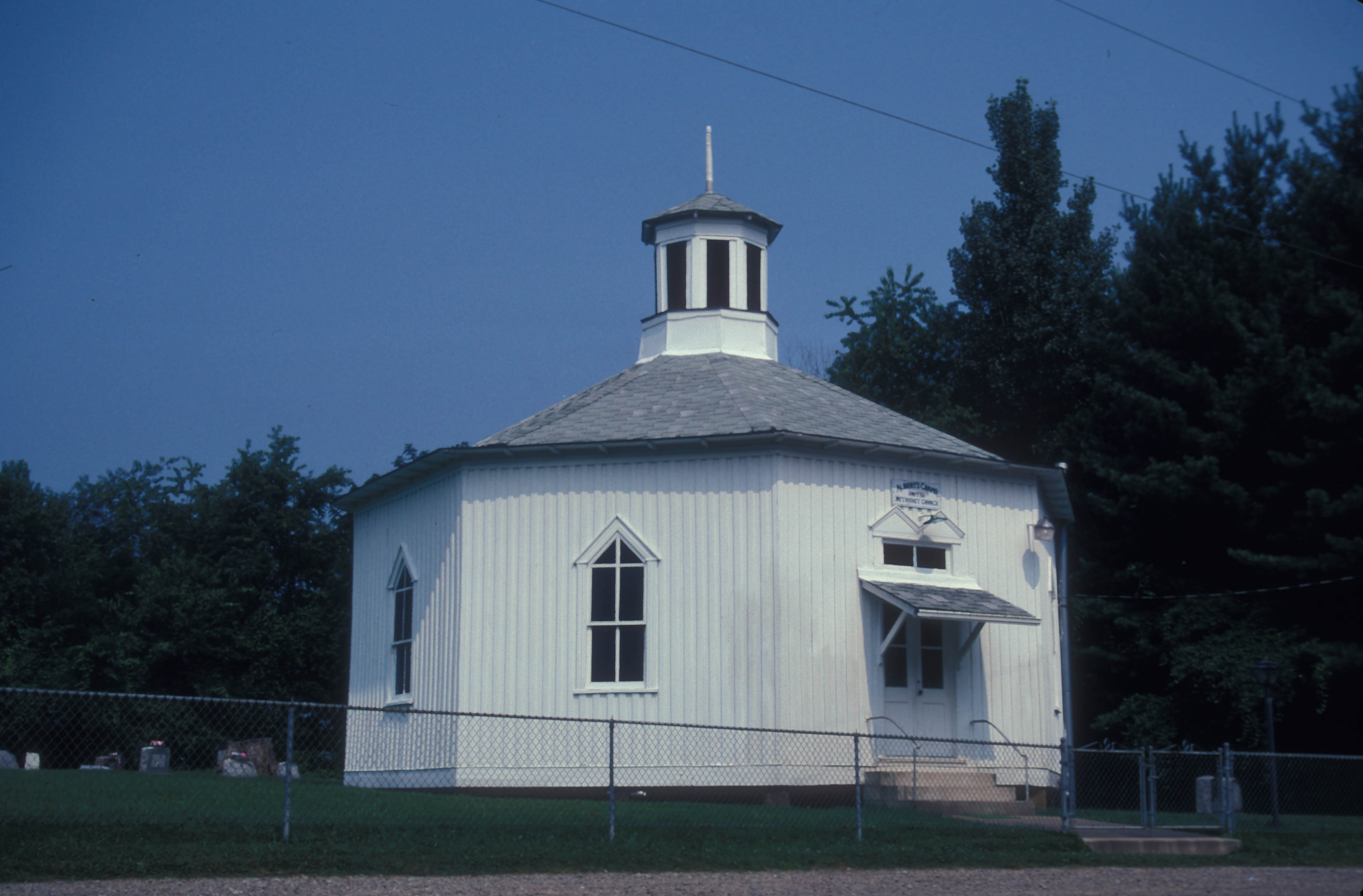 ALONG U.S. 119 IN SAND RIDGE CONSTRUCTED IN 1903 IS THE ONLY OCTAGONAL STRUCTURE BUILT FOR HUMAN HABITATION IN WEST VIRGINIA